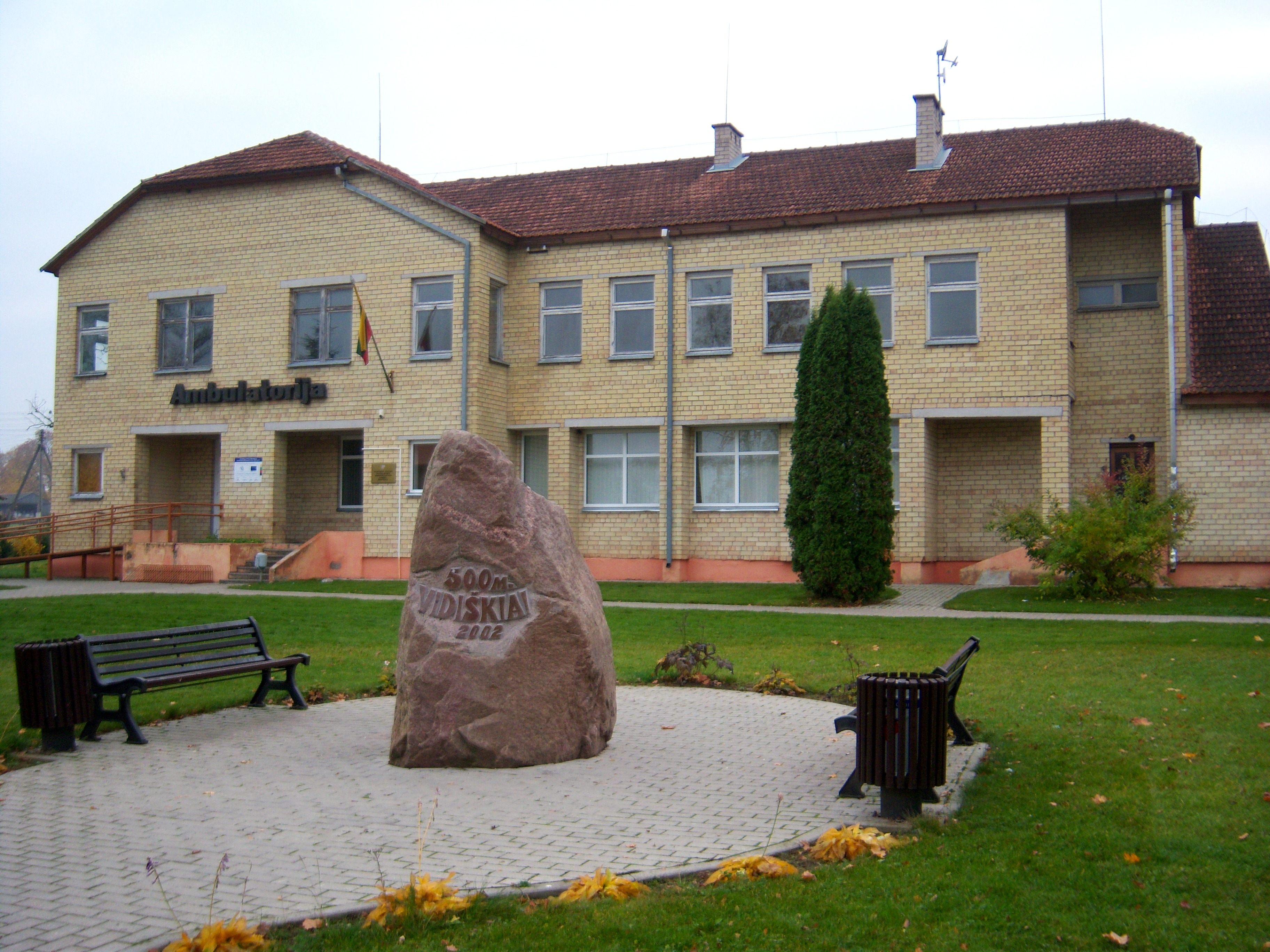 Vidiškiai, Ukmergė district, Lithuania